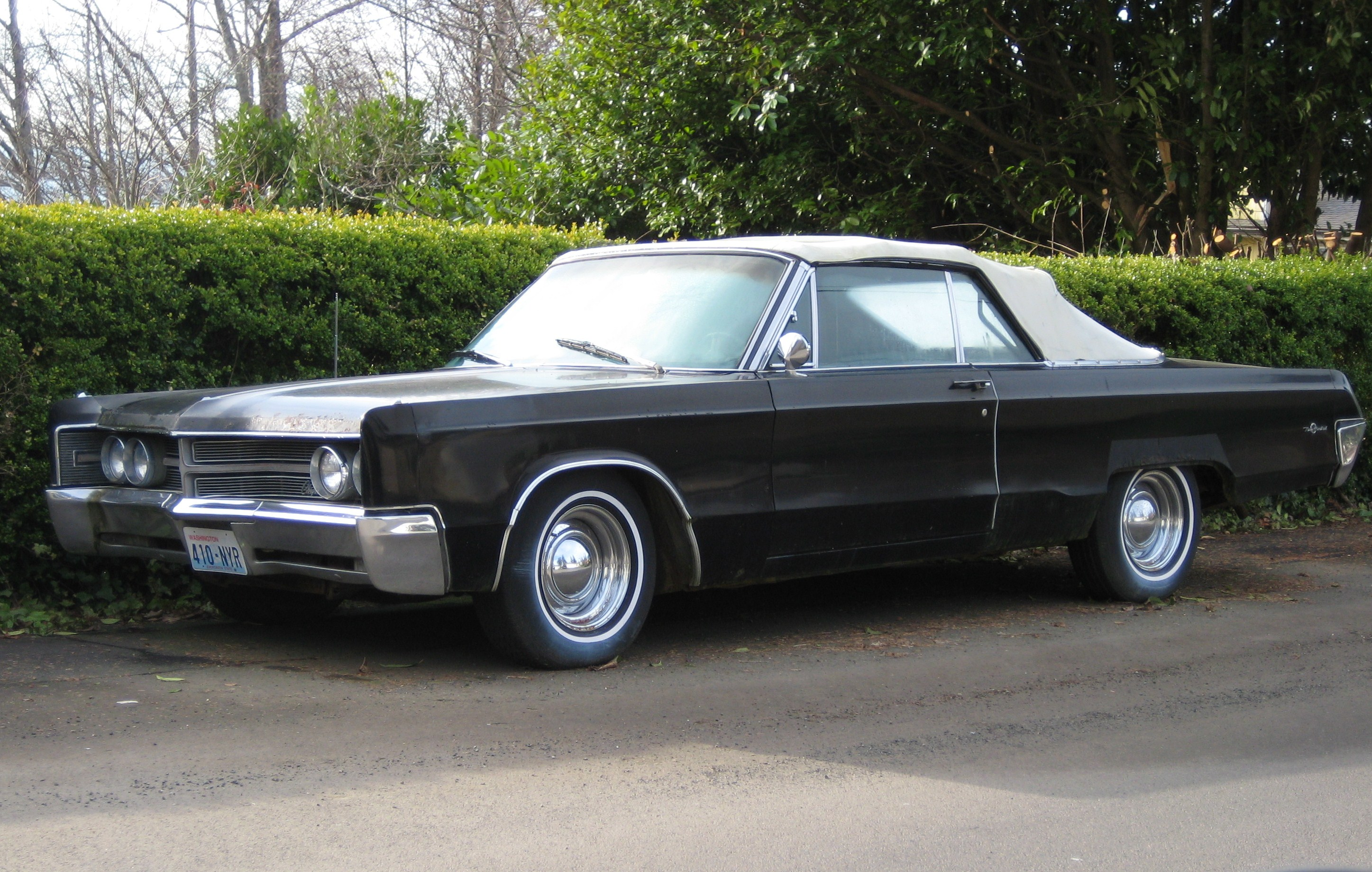 Hoquiam, Washington